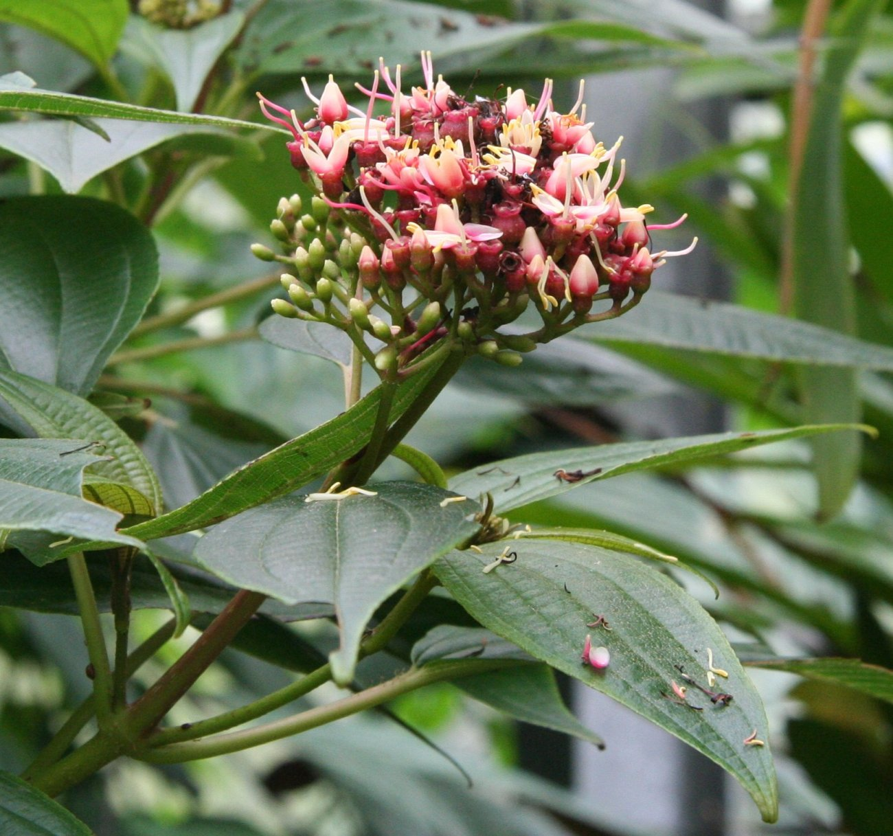 Charianthus corymbosus